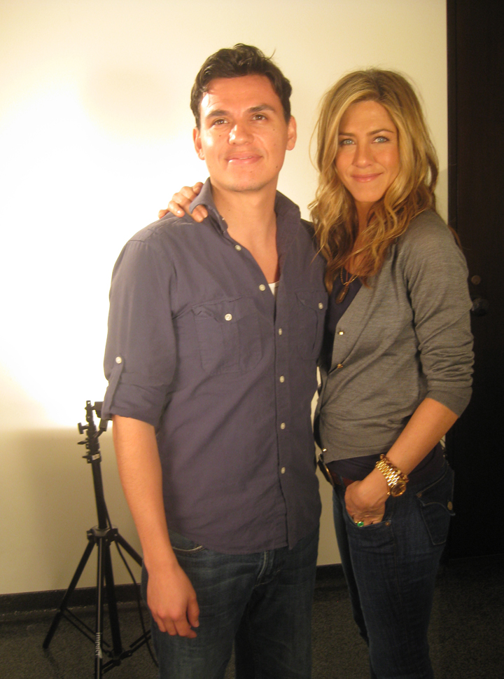 Andres Useche and Jennifer Aniston